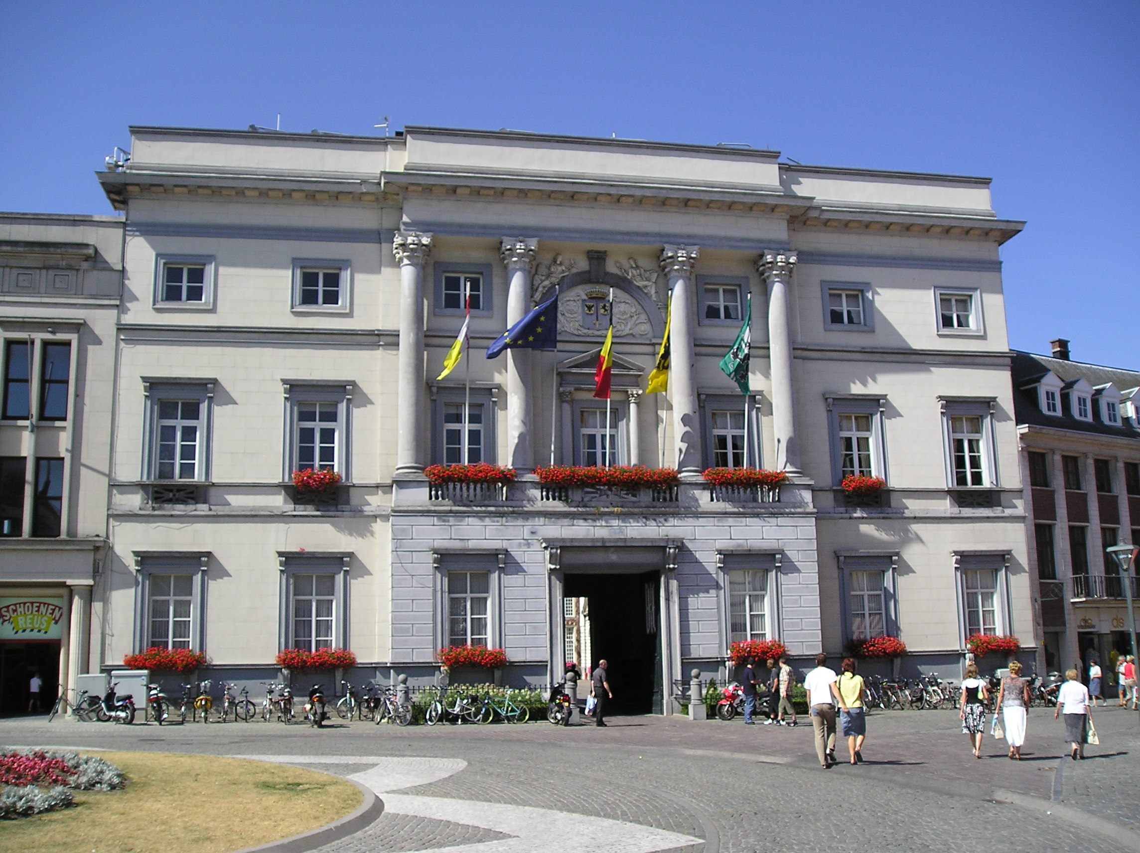 'Modern' Neoclassical facade of Town hall of Aalst, Belgium. Built in the 17th and 18th centuries.